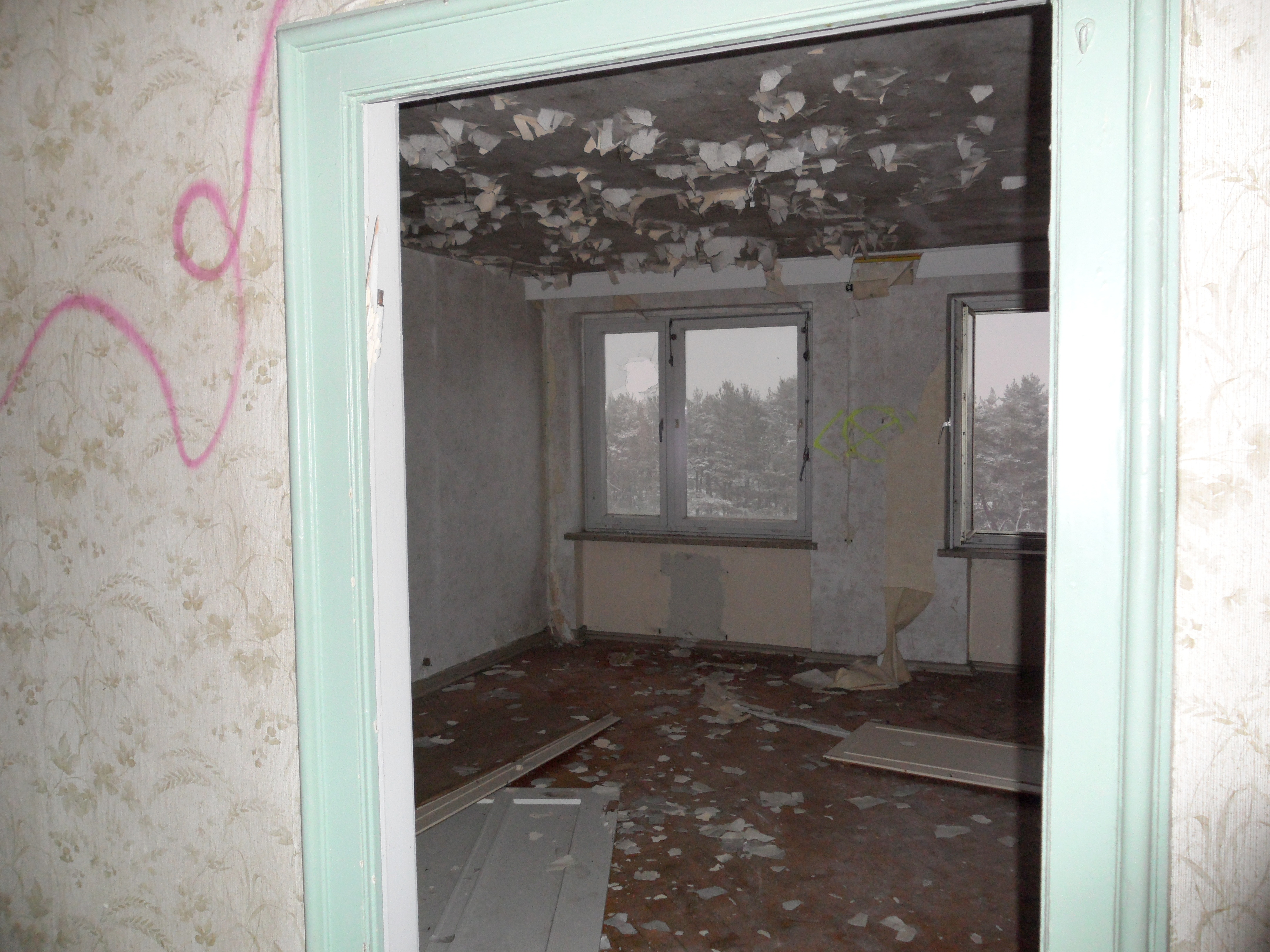 Typical room in the south part 3 of the KDF building in Prora